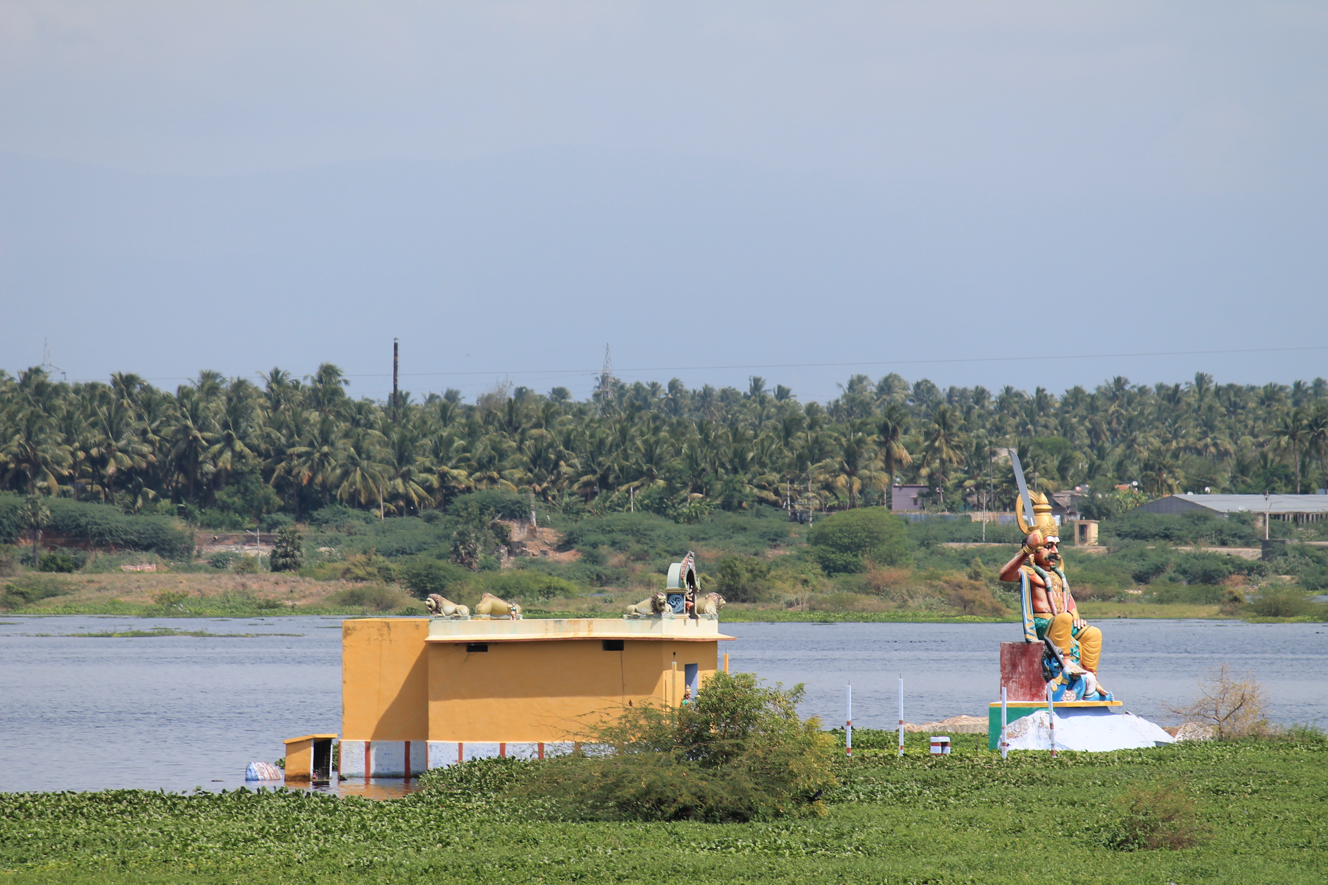 A Temple on the Banks of River Kaveri. Tamil Nadu, India